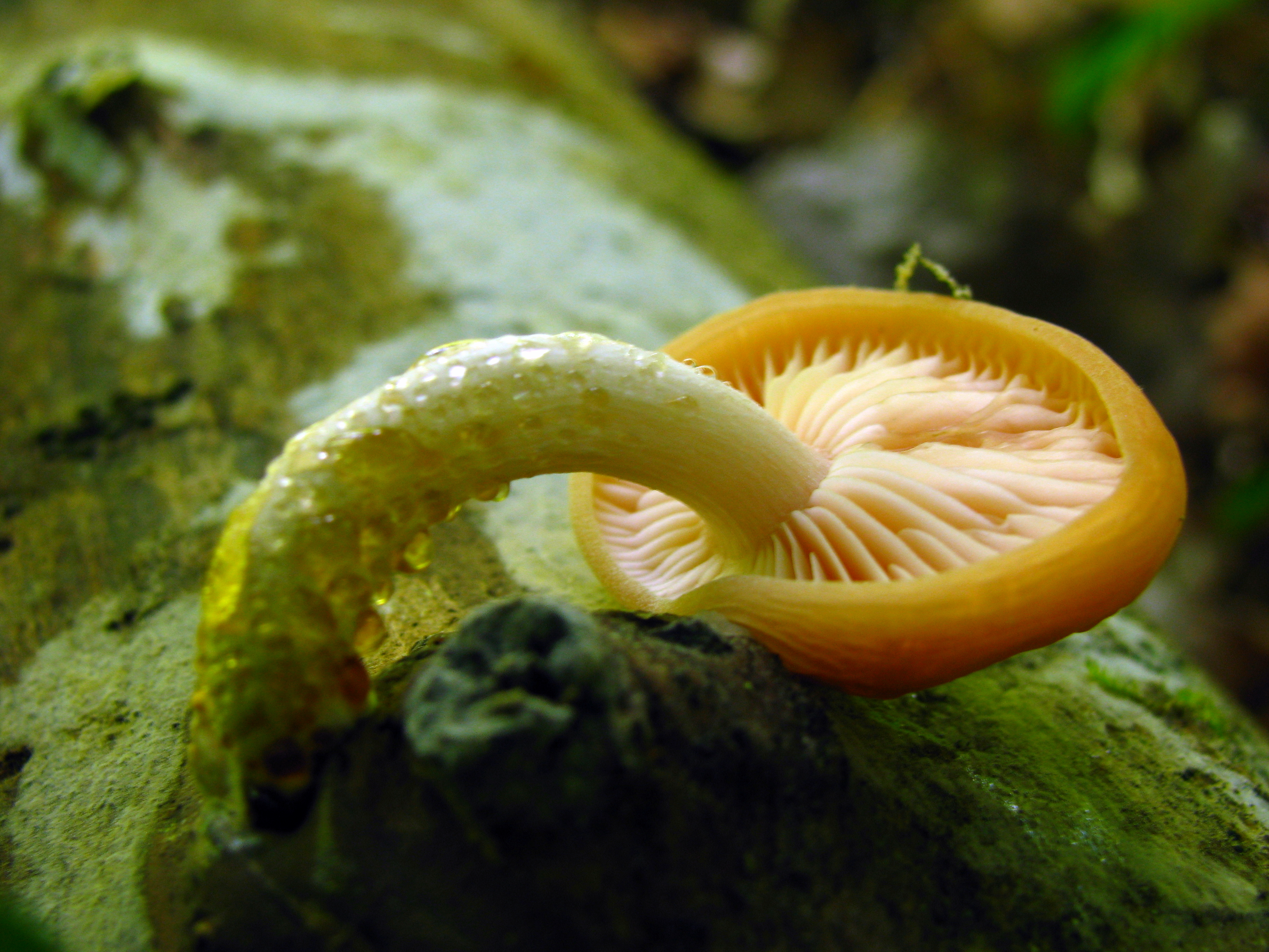 View of the gills of the "wrinkled peach" fungus, species Rhodotus palmatus (Bull.) Maire. Photographed in Strouds Run State Park, Athens, Ohio, USA.